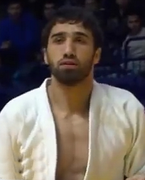 Russian judoka Khasan Khalmurzaev, Kazan, 2016